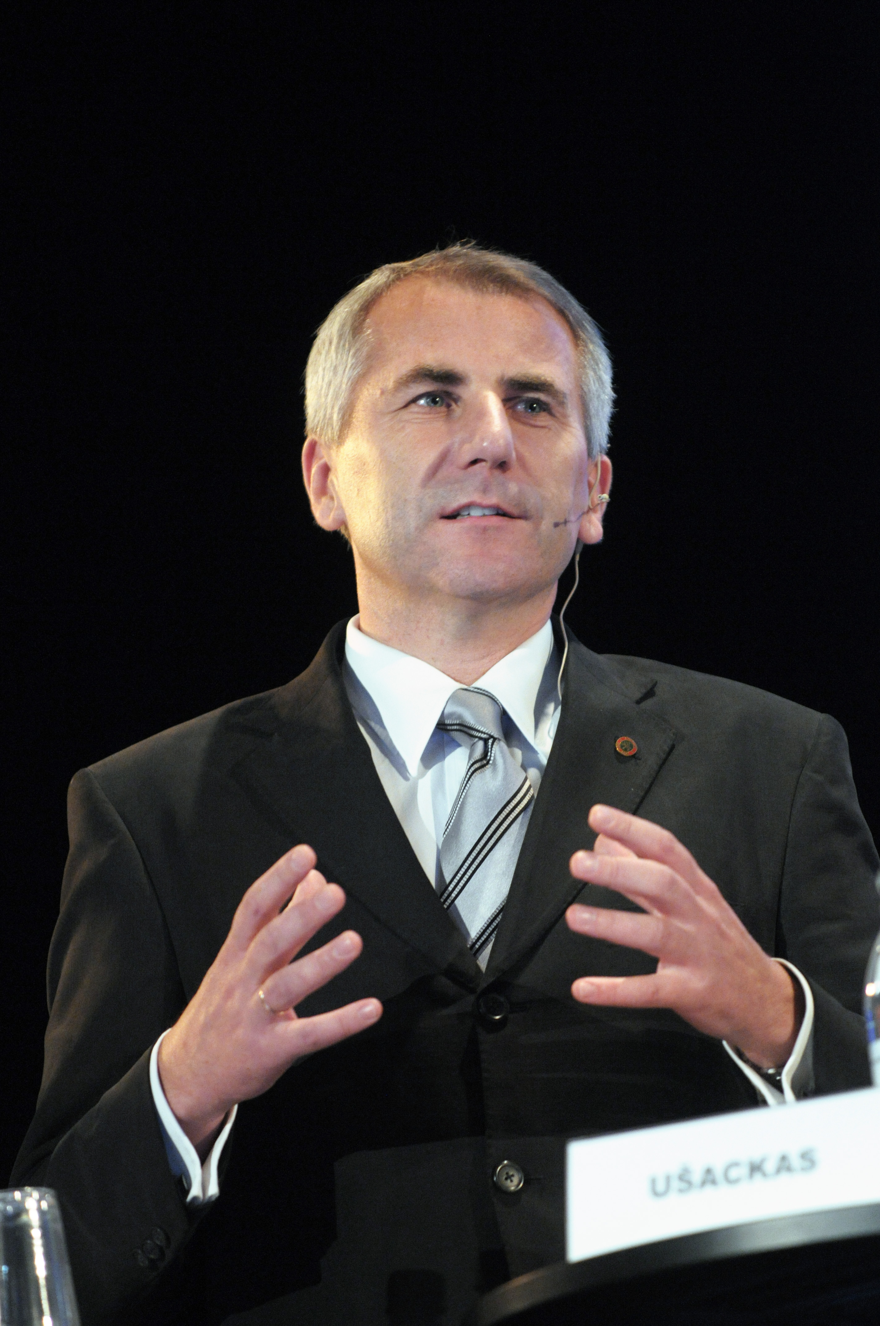 Vygaudas Ušackas, Minister of Foreign Affairs, Lithuania. Photo by Johannes Jansson.